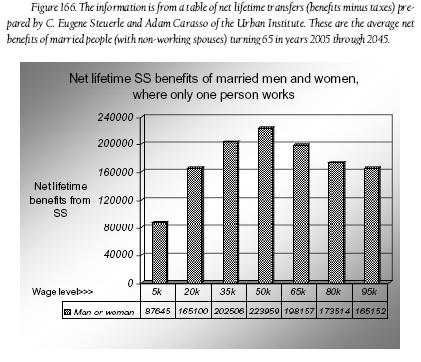 In the United States, Social Security benefits for married workers with stay-at-home spouses. According to author Joseph Fried, this graphic uses information from: C. Eugene Steuerle and Adam Carasso, "The USA Today Lifetime Social Security and Medicare Benefits Calculator," (Urban Institute, October 1, 2004), from: Note: The calculator does not include the value or cost of the Social Security disability program.